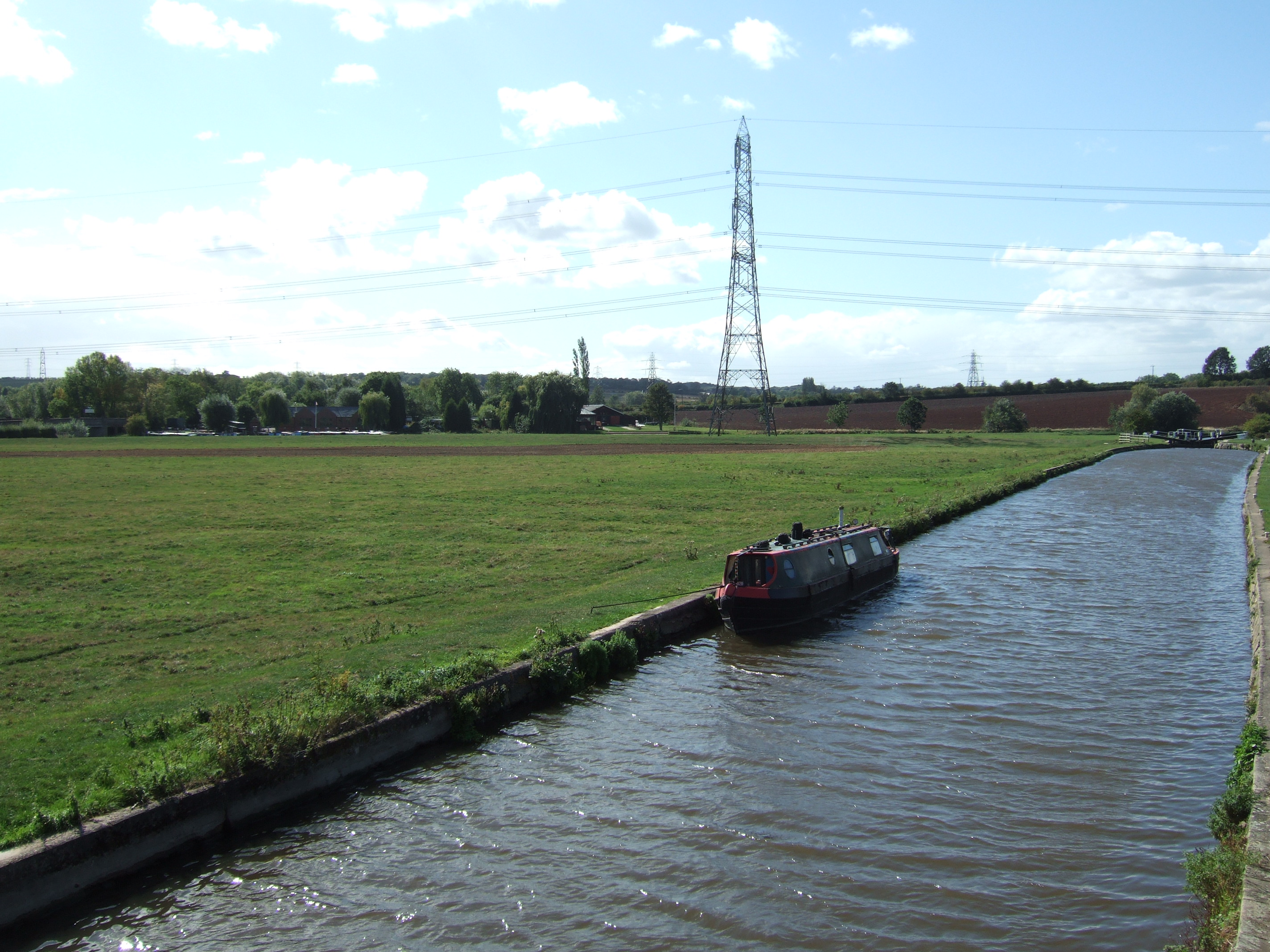 Zouch Lock on the Soar Navigation, Nottinghamshire